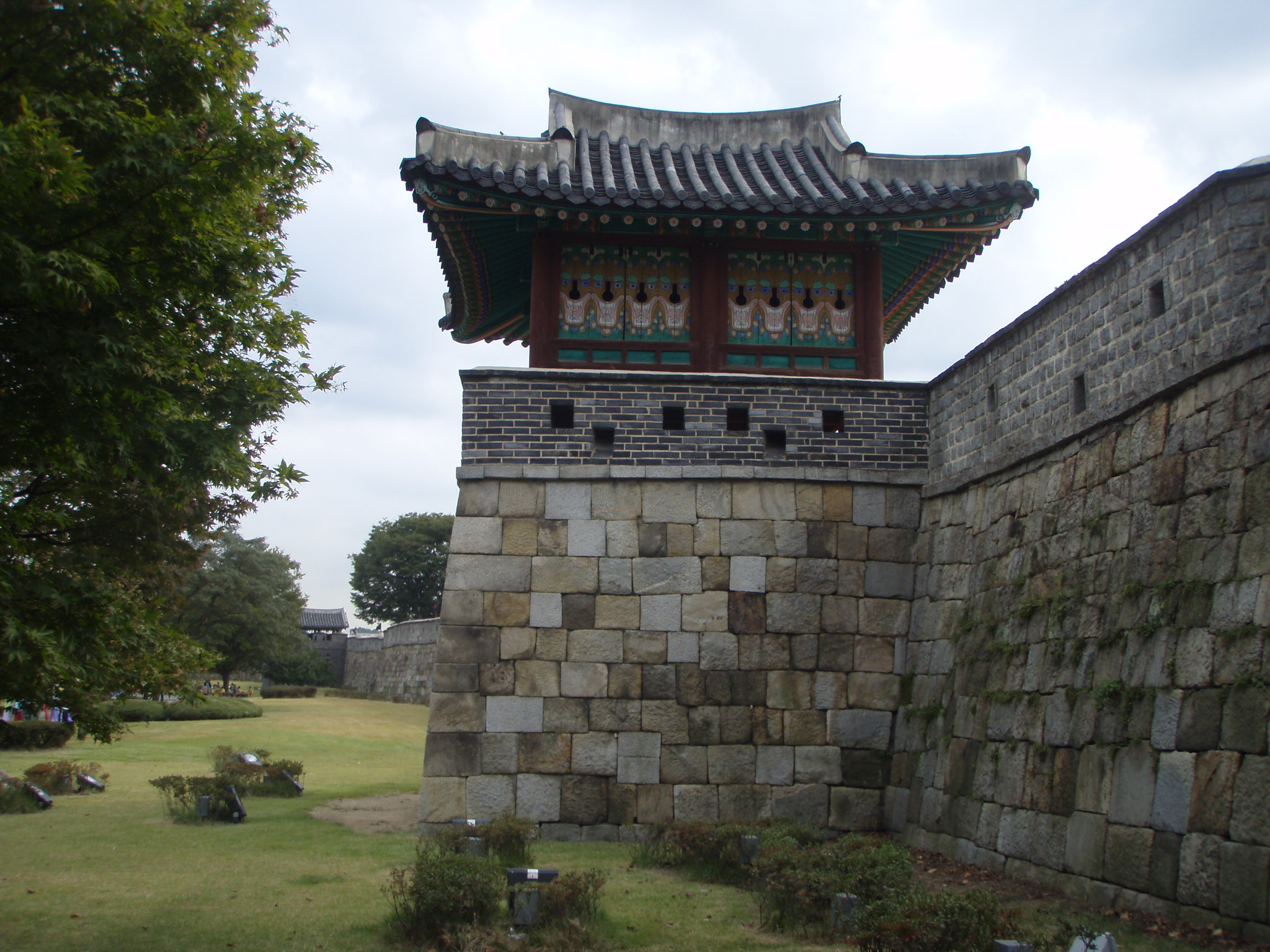 Bukporu Suwon Hwaseong Fortress